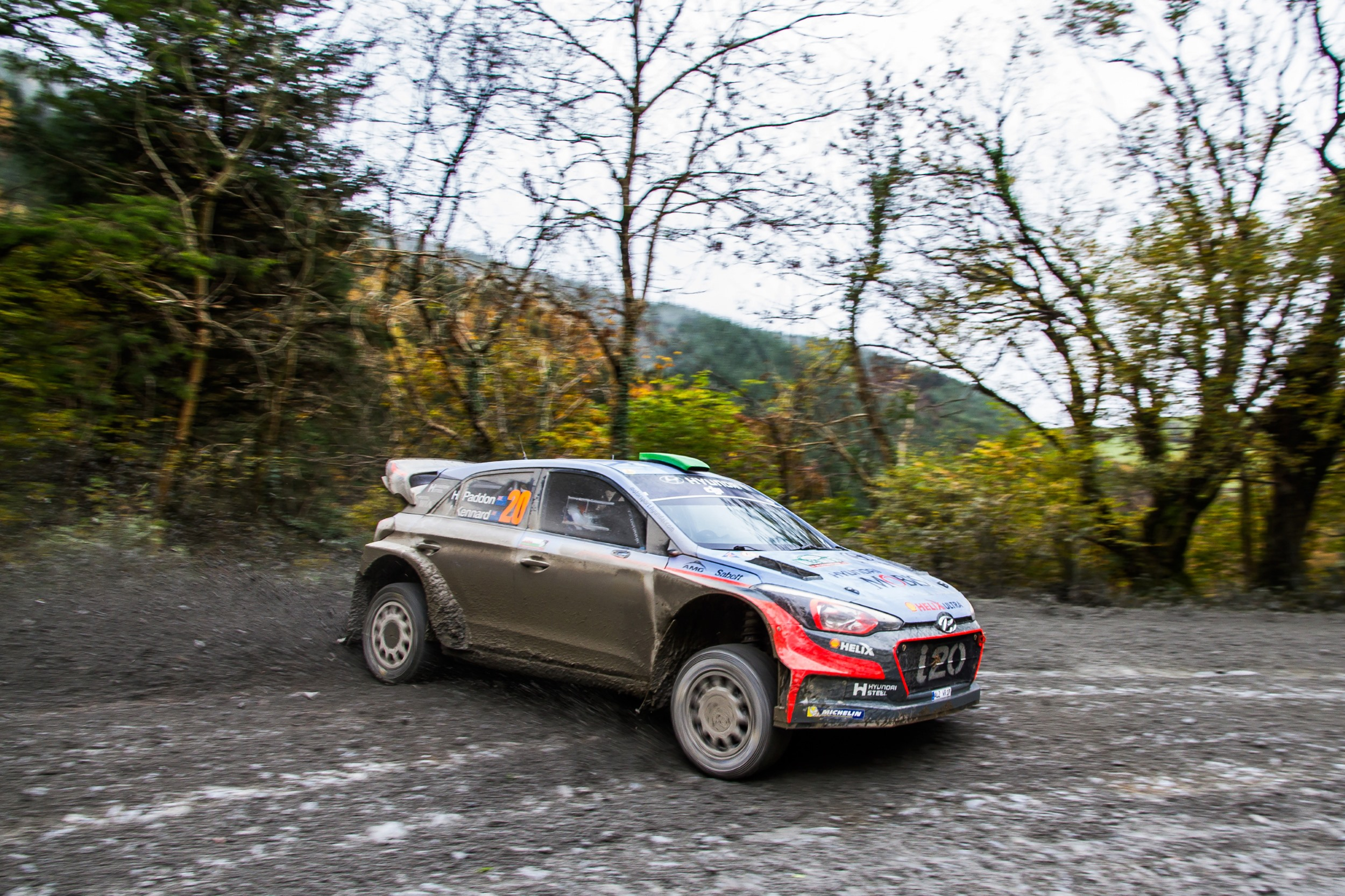 Hayden Paddon and co-driver John Kennard in their Hyundai i20 at the 2016 Wales Rally GB.